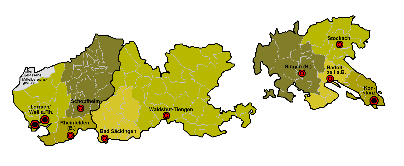 Maps of planning regions (Mittelbereiche) in the region Hochrhein-Bodensee, Baden-Württemberg, Germany